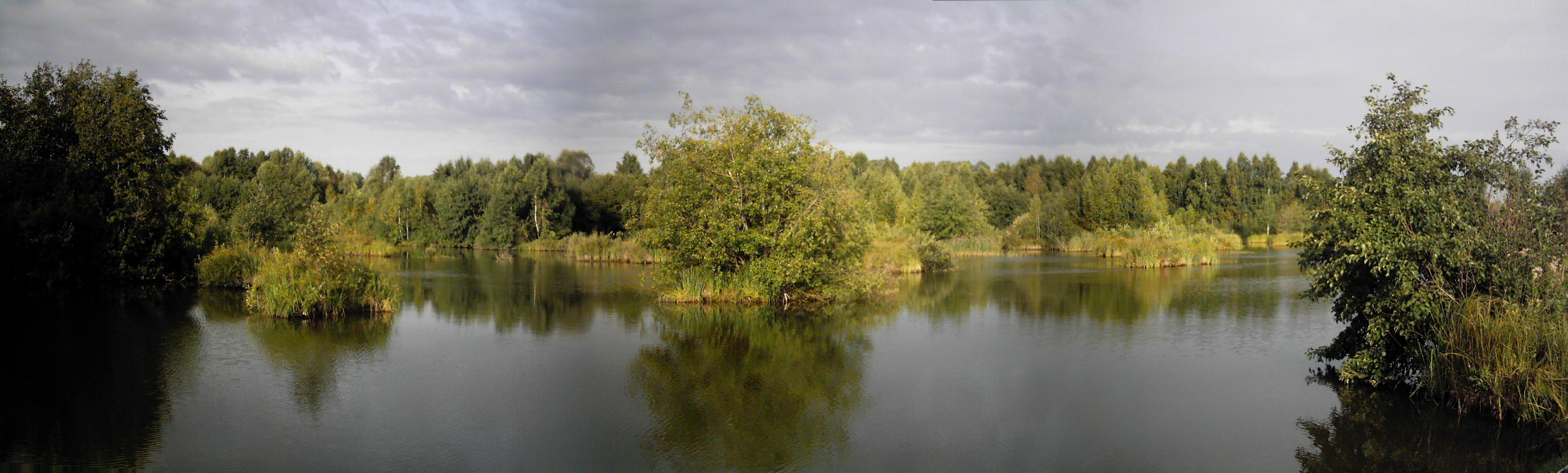 Usen River near Tuzlukush.